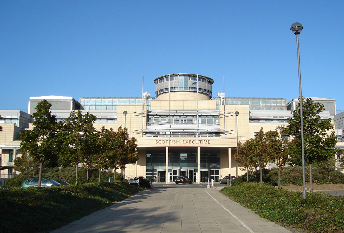 The Scottish Executive office building at Victoria Quay, Leith, Edinburgh, Scotland